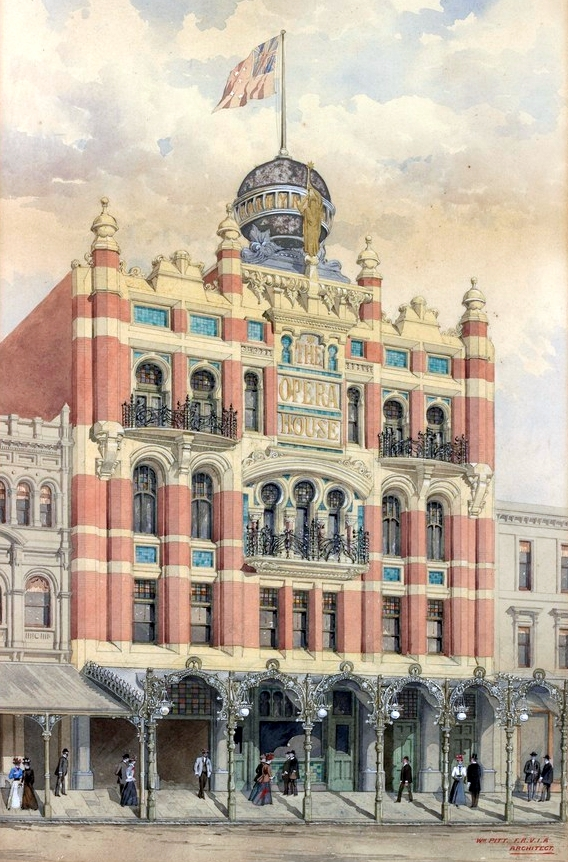 An illustration of the New Opera House theatre facade, dating from 1900.